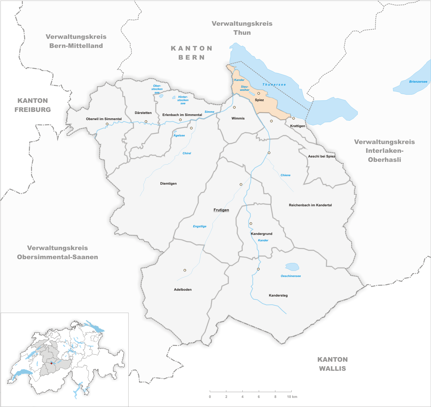 Municipality Spiez